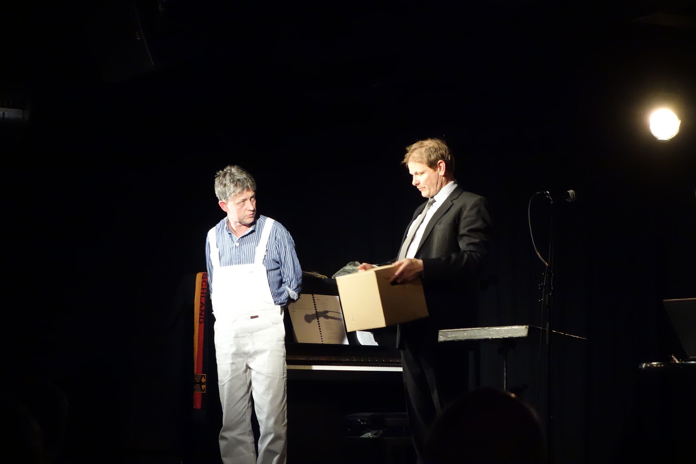 Duale Satire on stage in Pirna, Q24. Ulrich Eißner (left), Arnd Stephan (right)